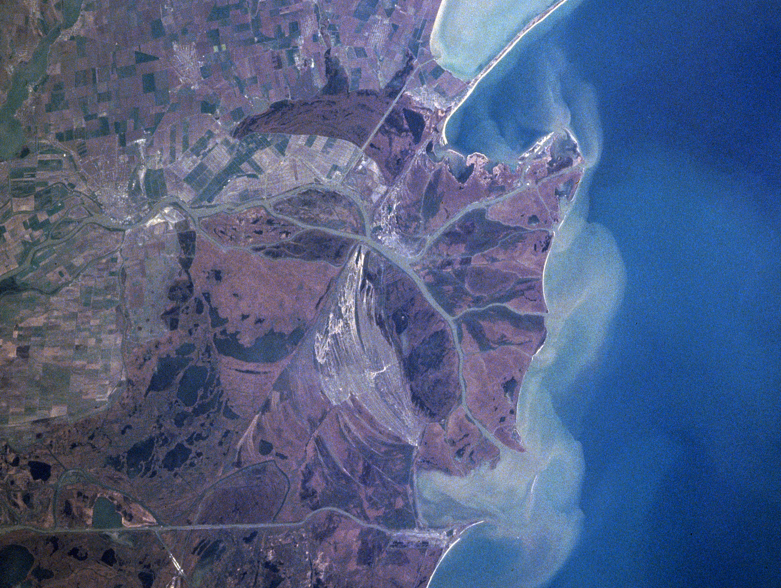 Danube Delta satellite photo